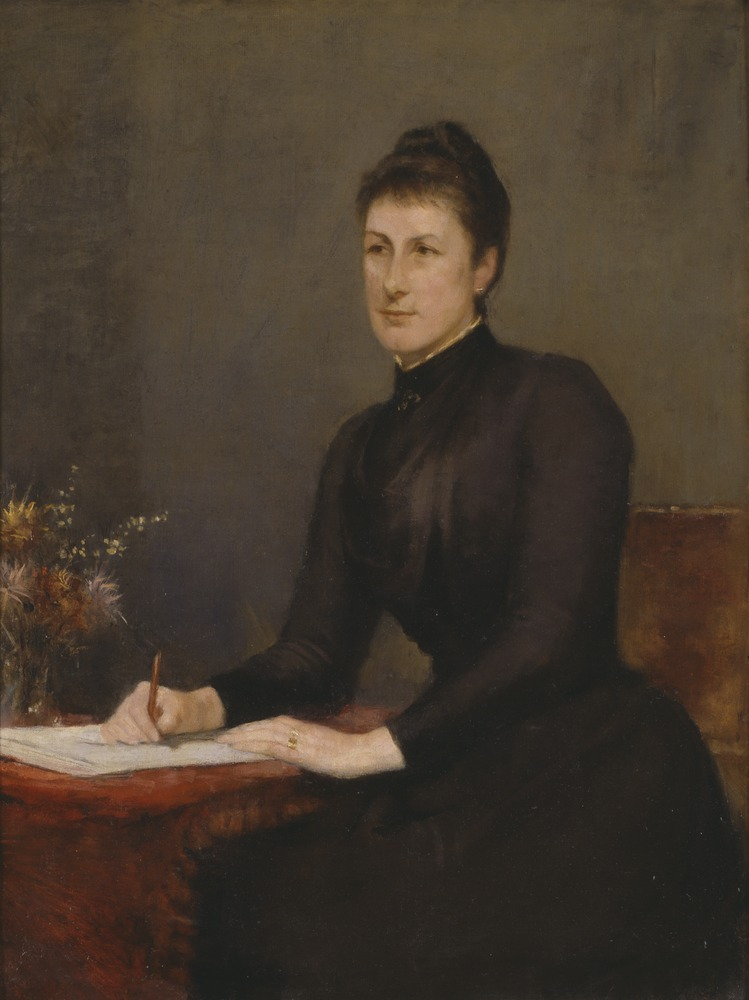 Madame Couvreur - 'Tasma' Jessie Catherine Couvreur — shown three-quarter-length, to right, seated holding pen and paper.